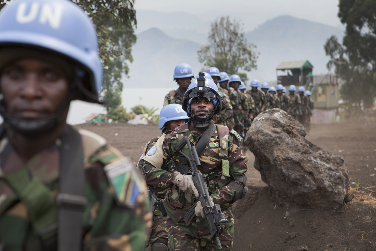 FIB Tanzanian special forces during training, Sake, the 17th of July 2013.